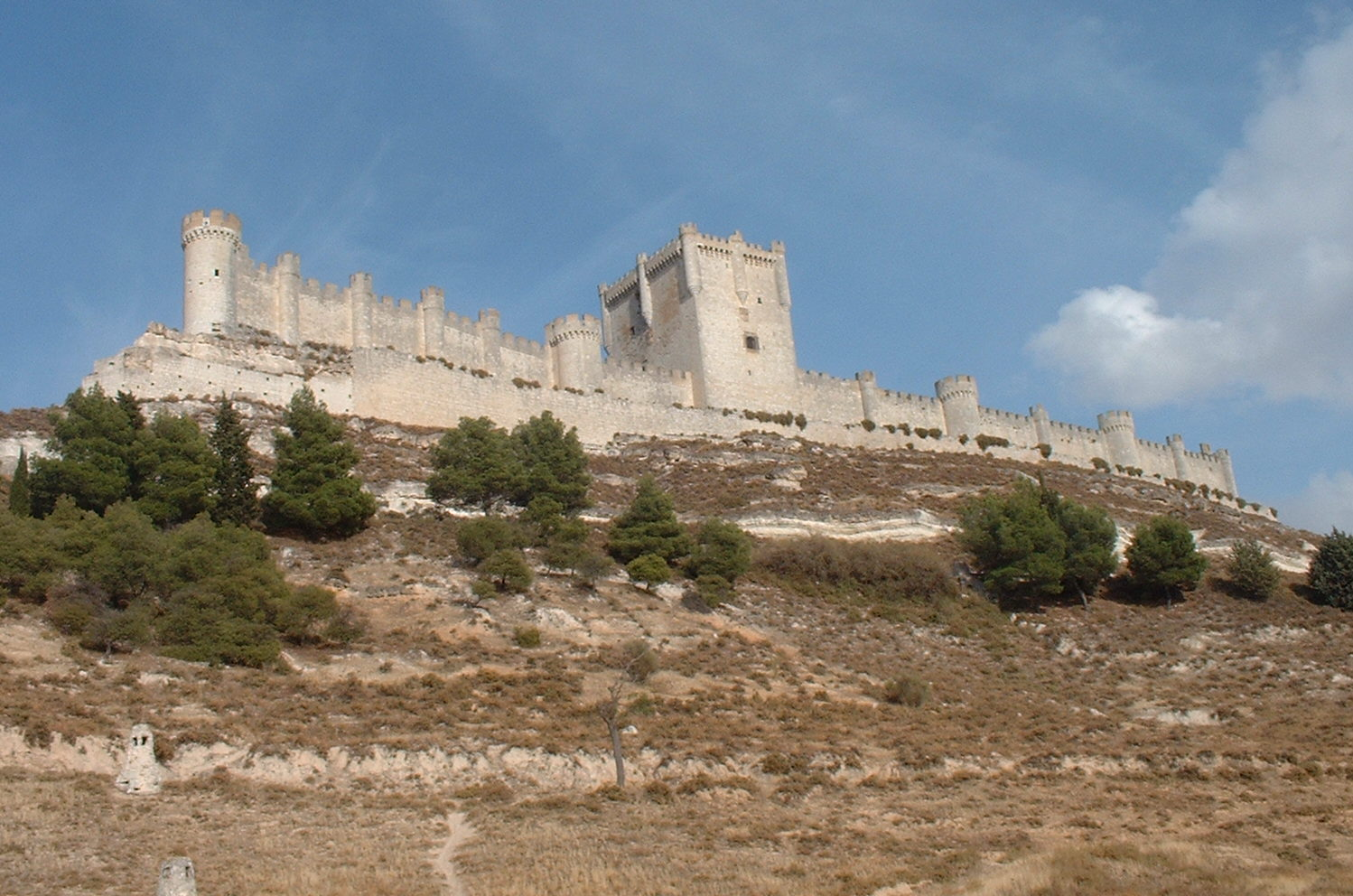 Castillo de Peñafiel, Peñafiel Castle, Valladolid, Spain. Viewed from West. The vents seen at the lower left are for the ventilation of underground caves used as wine cellars.